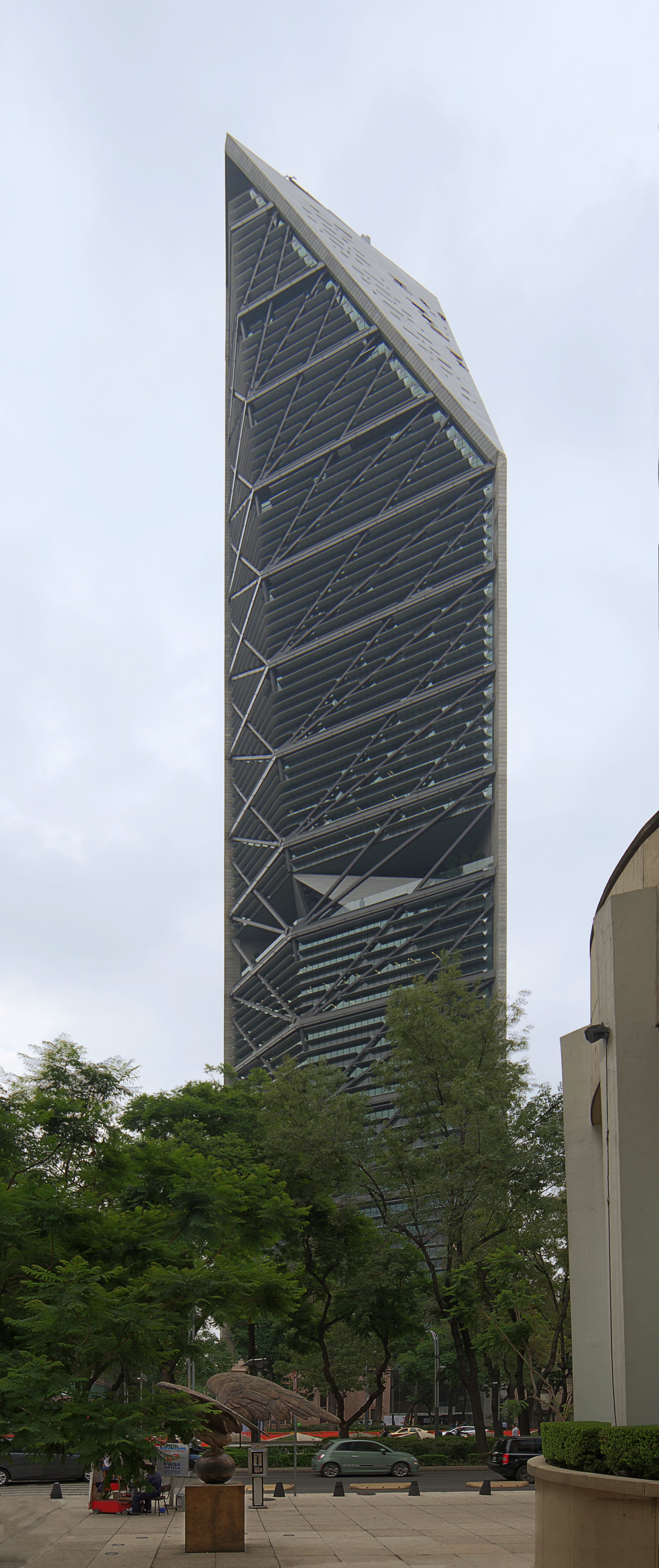 Reforma Tower, Paseo de la Reforma, Mexico City, Mexico